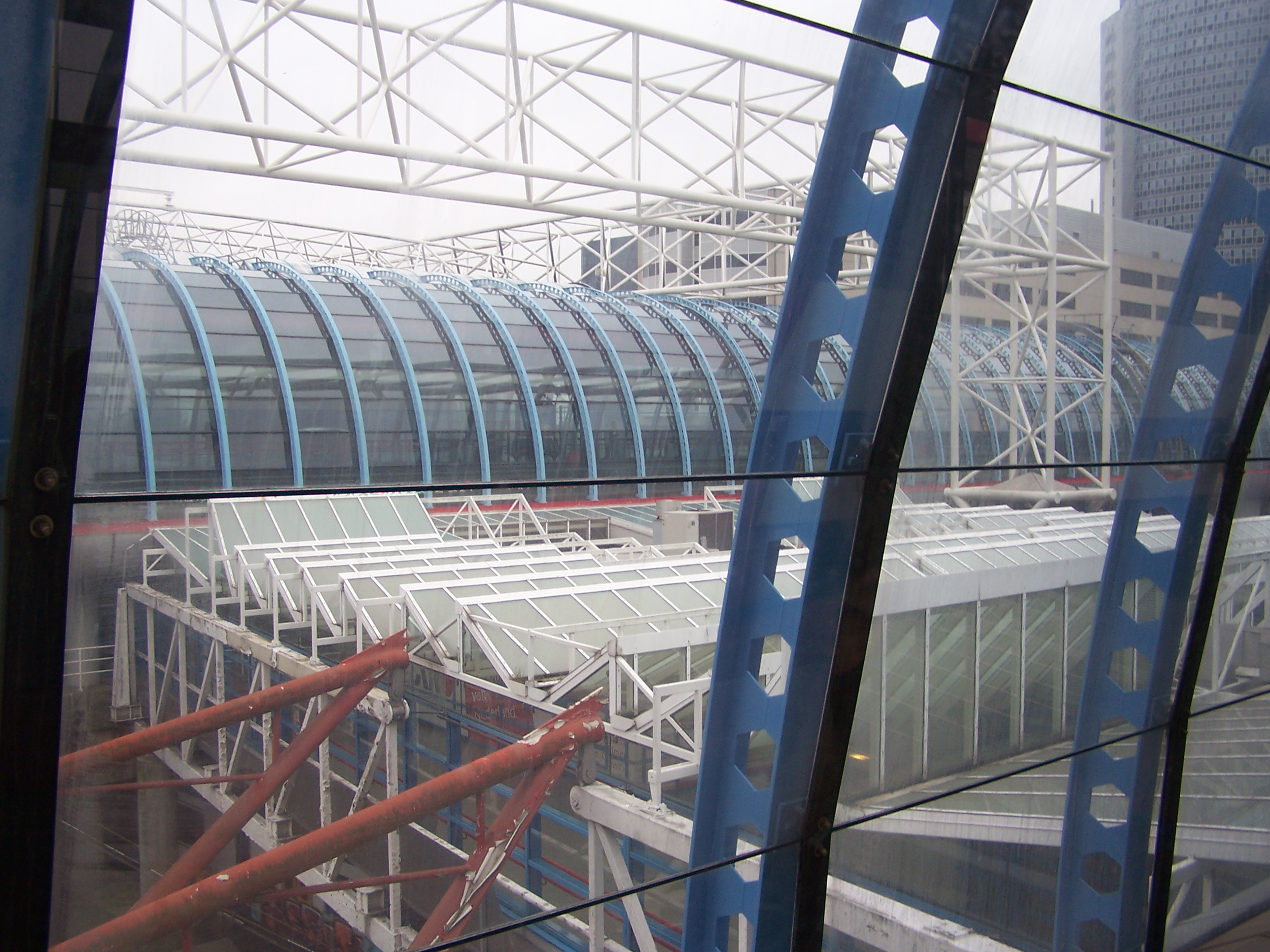 Picture: Mig de Jong This picture shows the metro and train station Sloterdijk in Amsterdam, Holland.